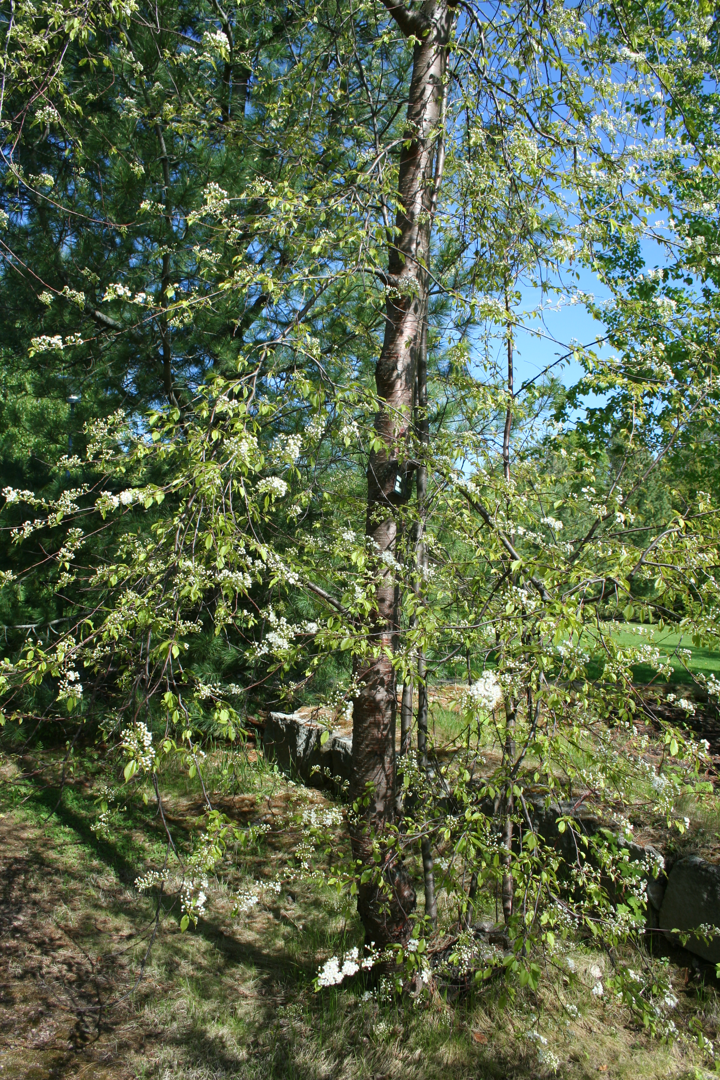 Prunus pensylvanica in Oulu University Botanical Gardens, Finland.